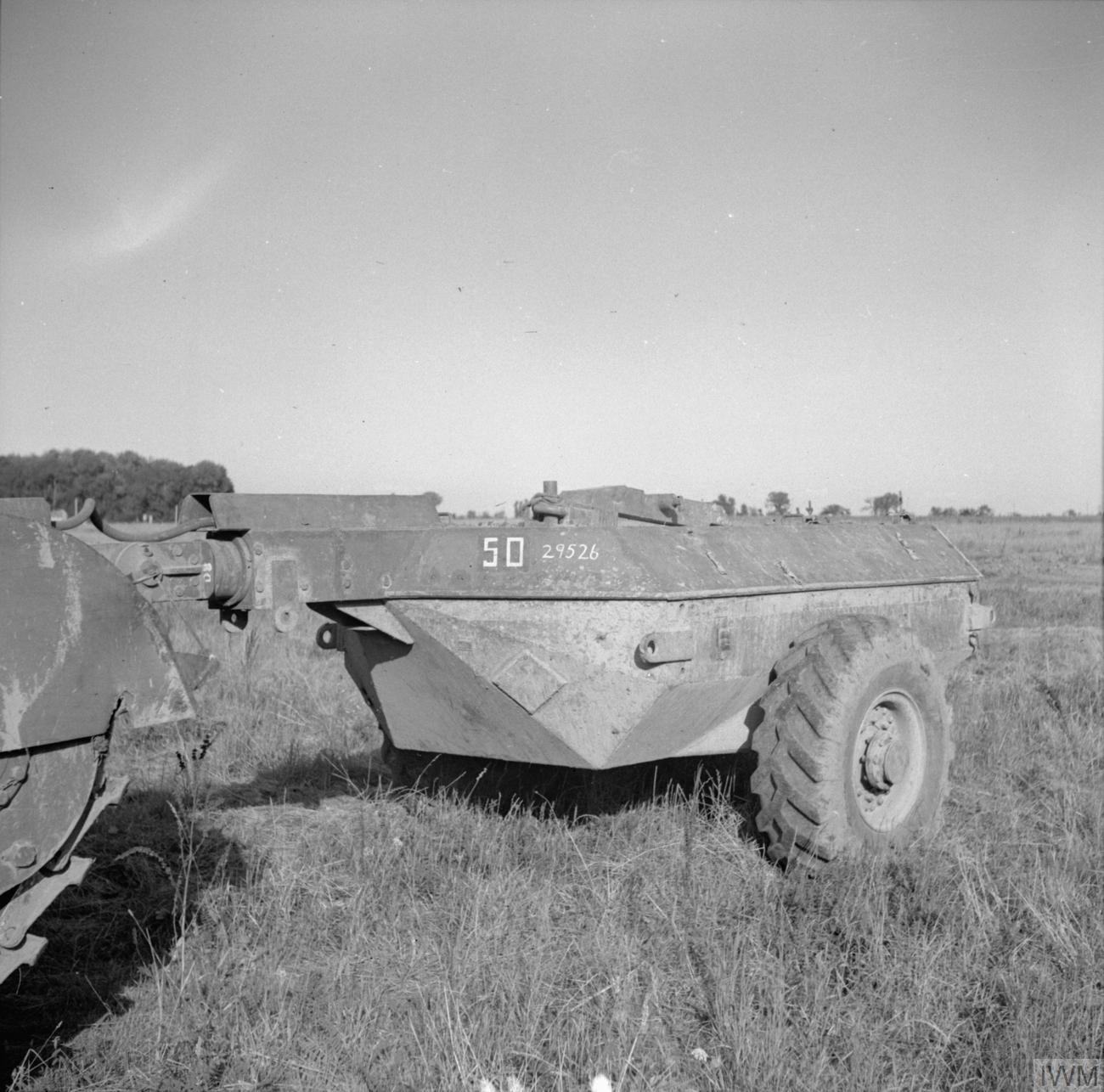 The British Army in France 1944 A Churchill Crocodile flame-throwing tank during a demonstration, 25 August 1944. Close-up of the fuel trailer.